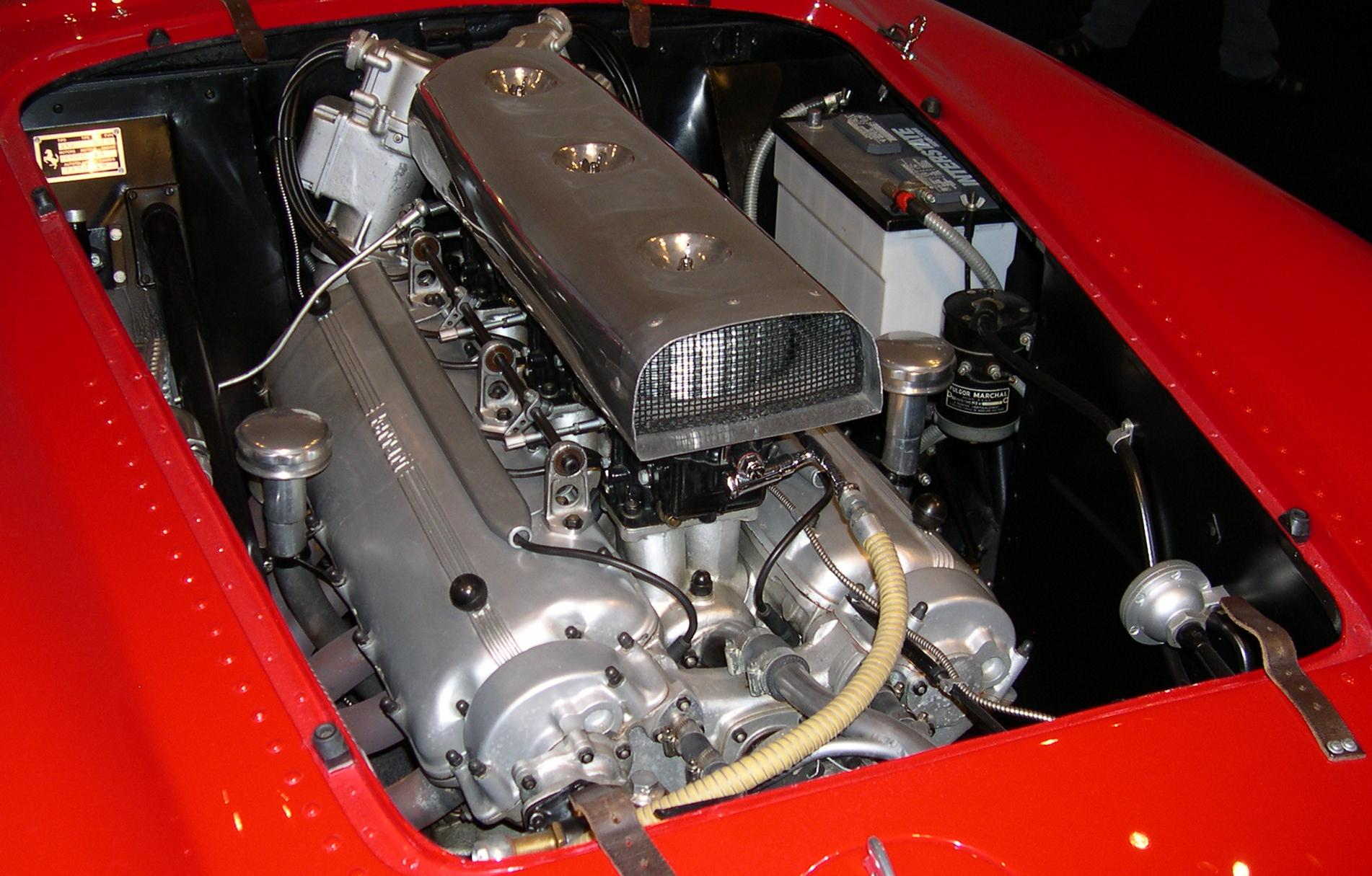 1954 Ferrari 375 Plus Lampredi V12 engine From the Ralph Lauren collection on display at the Boston Museum of Fine Arts. Photo taken in 2005. Source: Photo by User:Sfoskett